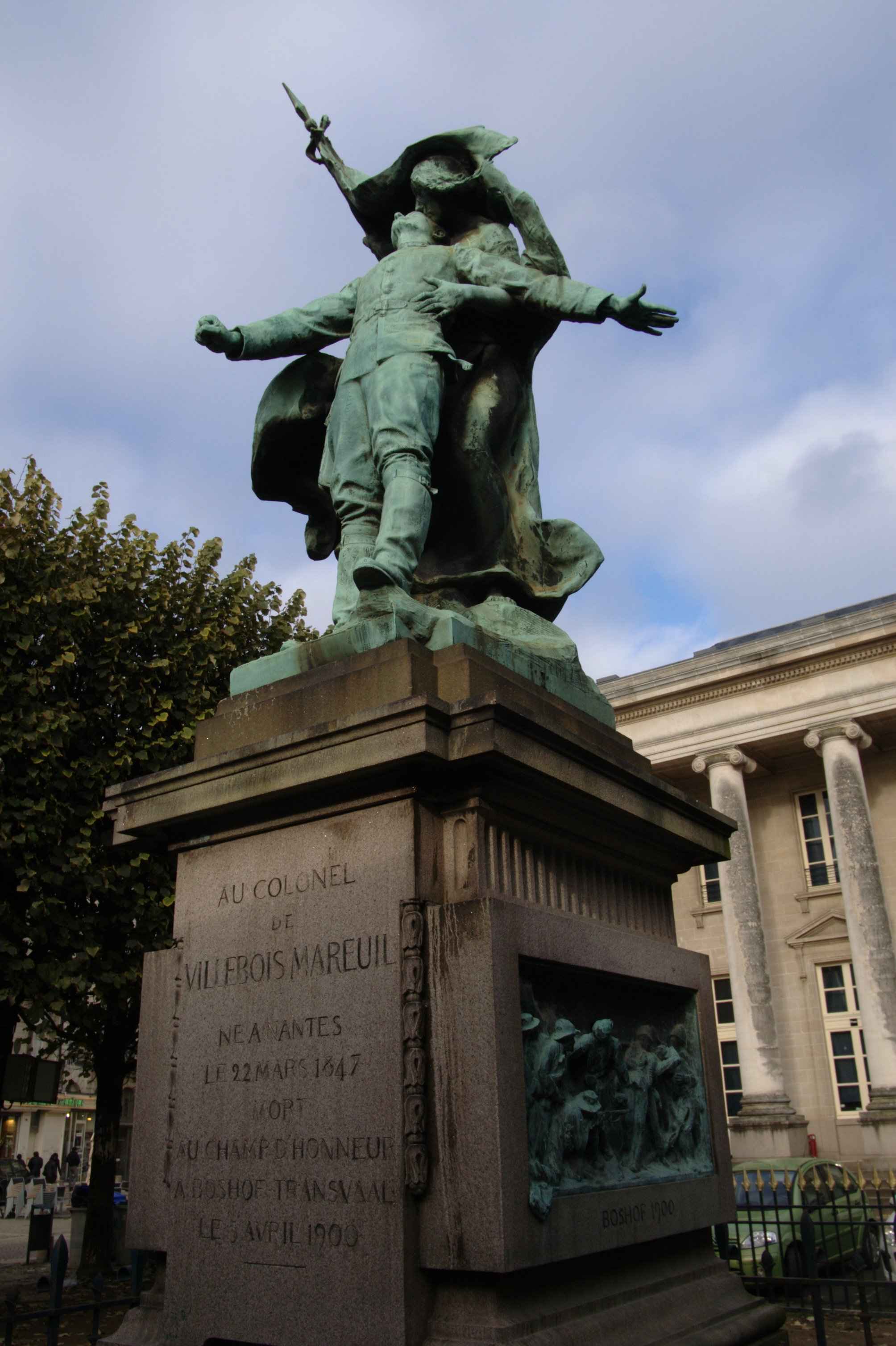 Statue of George Henri Anne-Marie Victor de Villebois-Mareuil in Nantes. Sculptor Raoul Verlet (1857-1923)